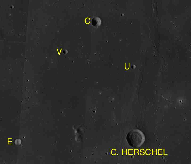 Part of the chart LAC-24 used for the presentation